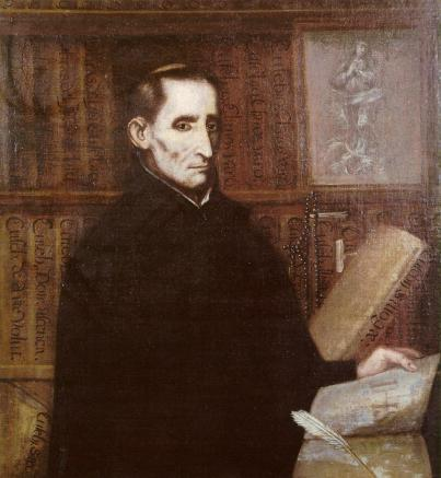 Spanish naturalist Juan Eusebio Nieremberg (1595-1658)